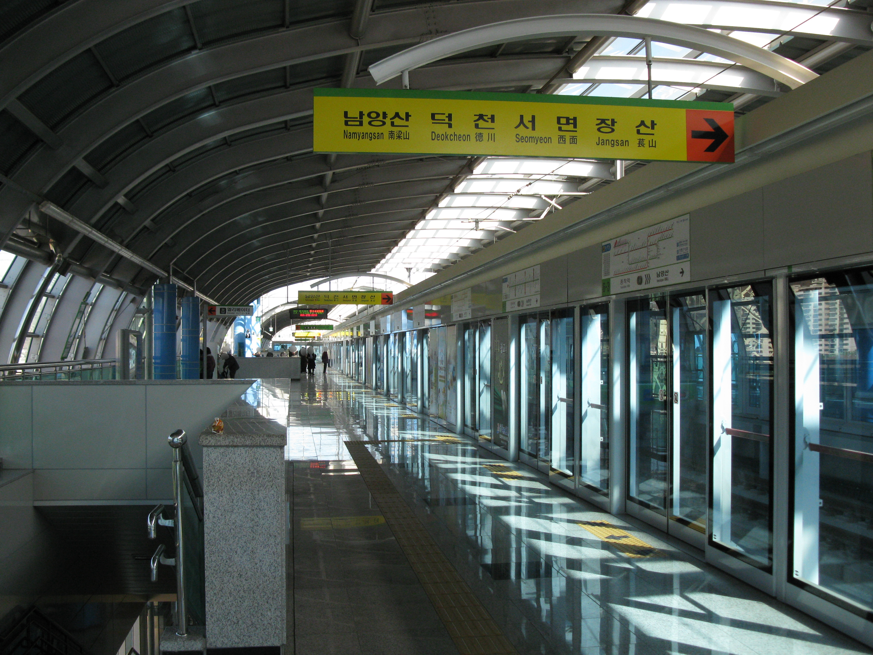 A platform of Yangsan Station, Busan Subway Line 2